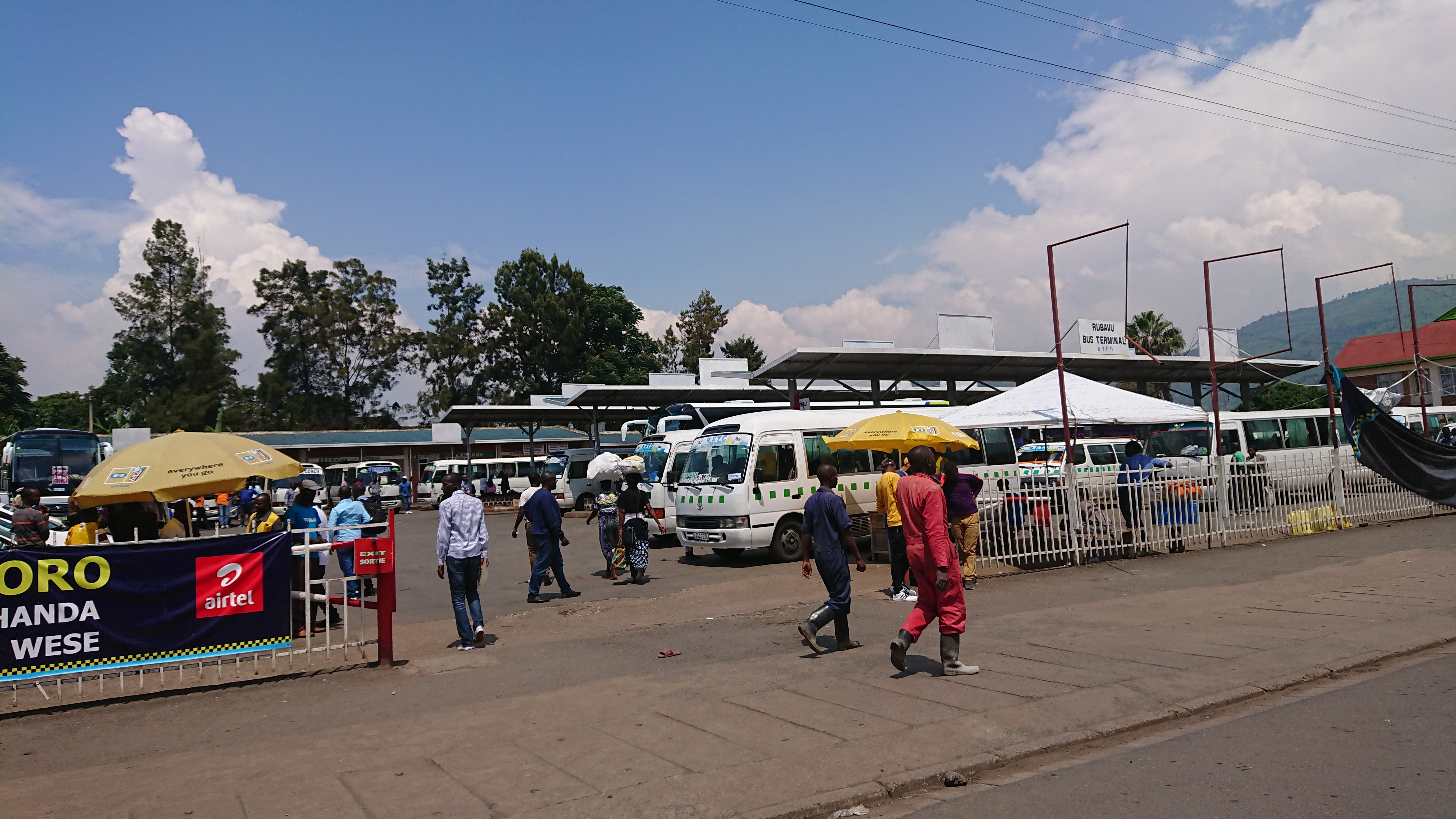 Rubavu is a smaller city in the north west of Rwanda. Thats why even the taxipark is smaller. This is an image with the theme "Africa on the Move or Transport" from: Rwanda